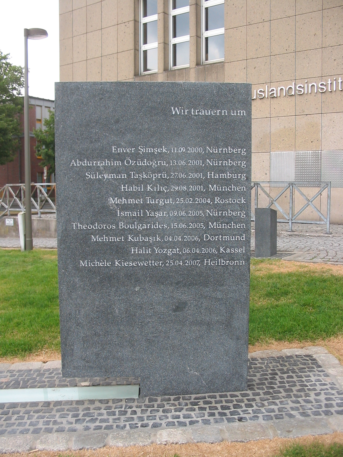 memorial for the victims of the Nationalsozialistischer Untergrund (National Socialist Underground, NSU) in Dortmund